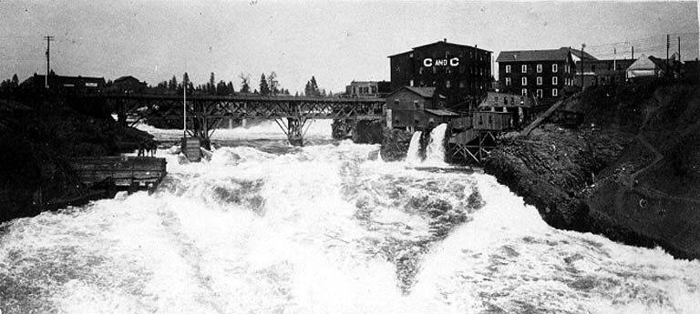 PH Coll 276.4 Frank Clinton Bailey started working as a photographer in Spokane around 1880. From at least 1888 until 1890, he worked as a photographer and crayon artist at the E.E. Bertrand photo studio. In 1890, he opened his own studio, but likely sold it after 1896. He opened another studio in 1903, the Bailey Studio, which remained in operation until about 1907, after which he entered the mining profession.